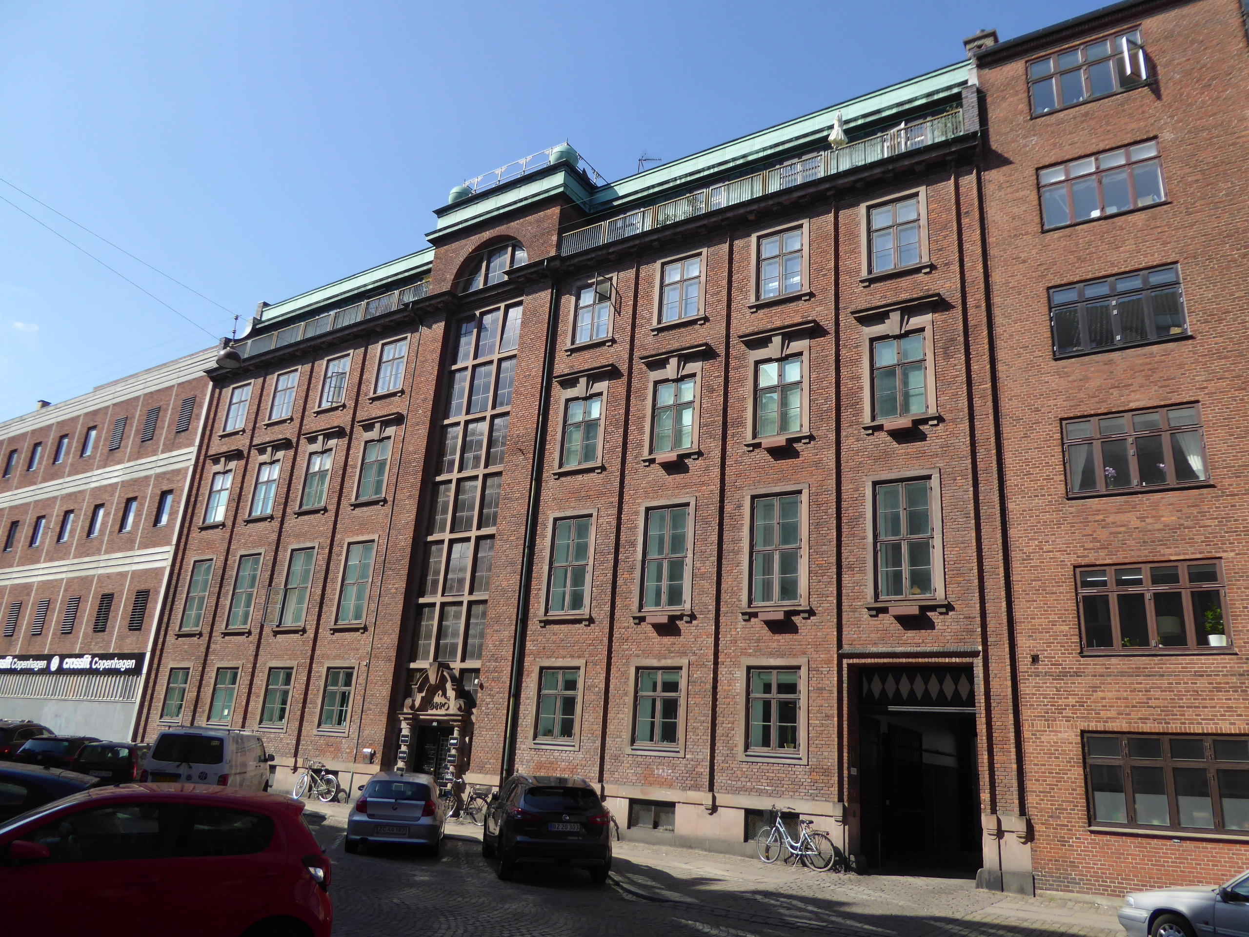 The former telephone exchange KTAS Central Øbro at Rosenvængets Allé in Østerbro in Copenhagen. The building is now used by various companies.